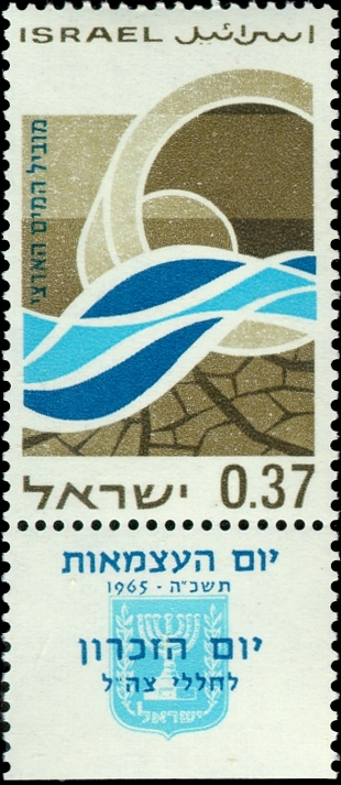 Stamp of Israel - Independance day 1965